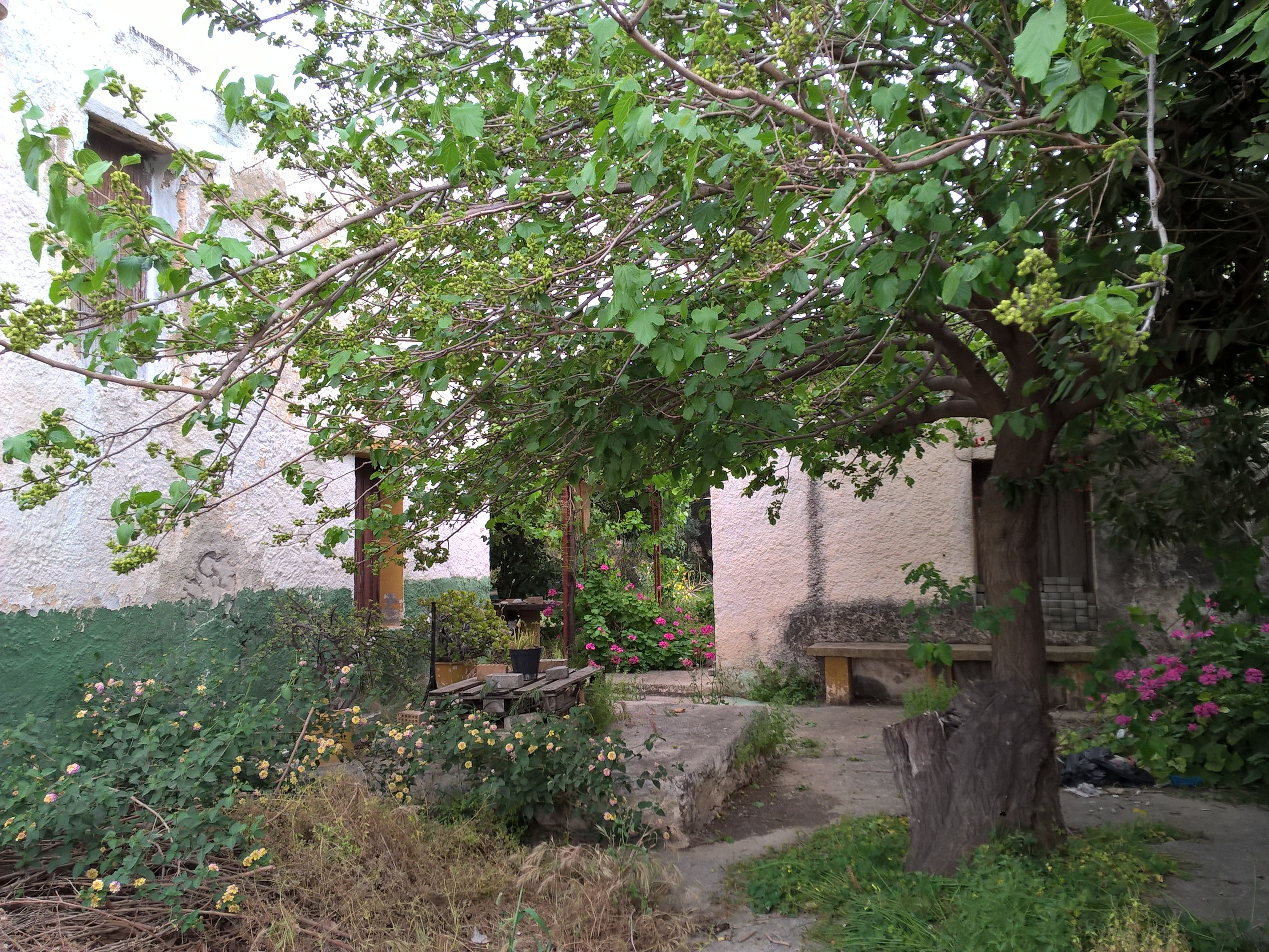 Hani Kokkini, 1850, front yard well